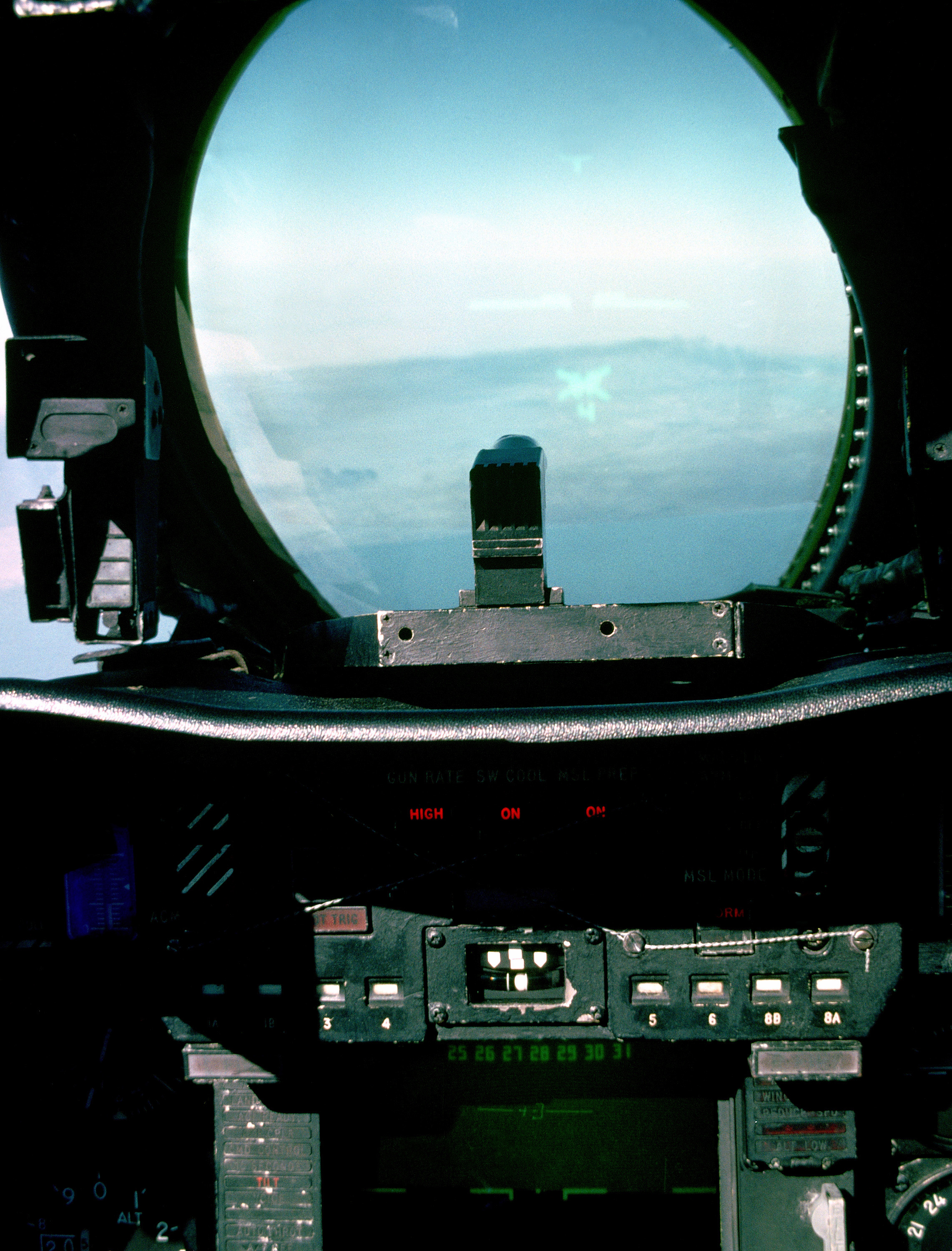 A view from the cockpit of a Fighter Squadron 33 (VF-33) F-14A Tomcat aircraft as it approaches the Kuwaiti coastline following Operation Desert Storm. VF-33 is embarked aboard the aircraft carrier USS AMERICA (CV 66).